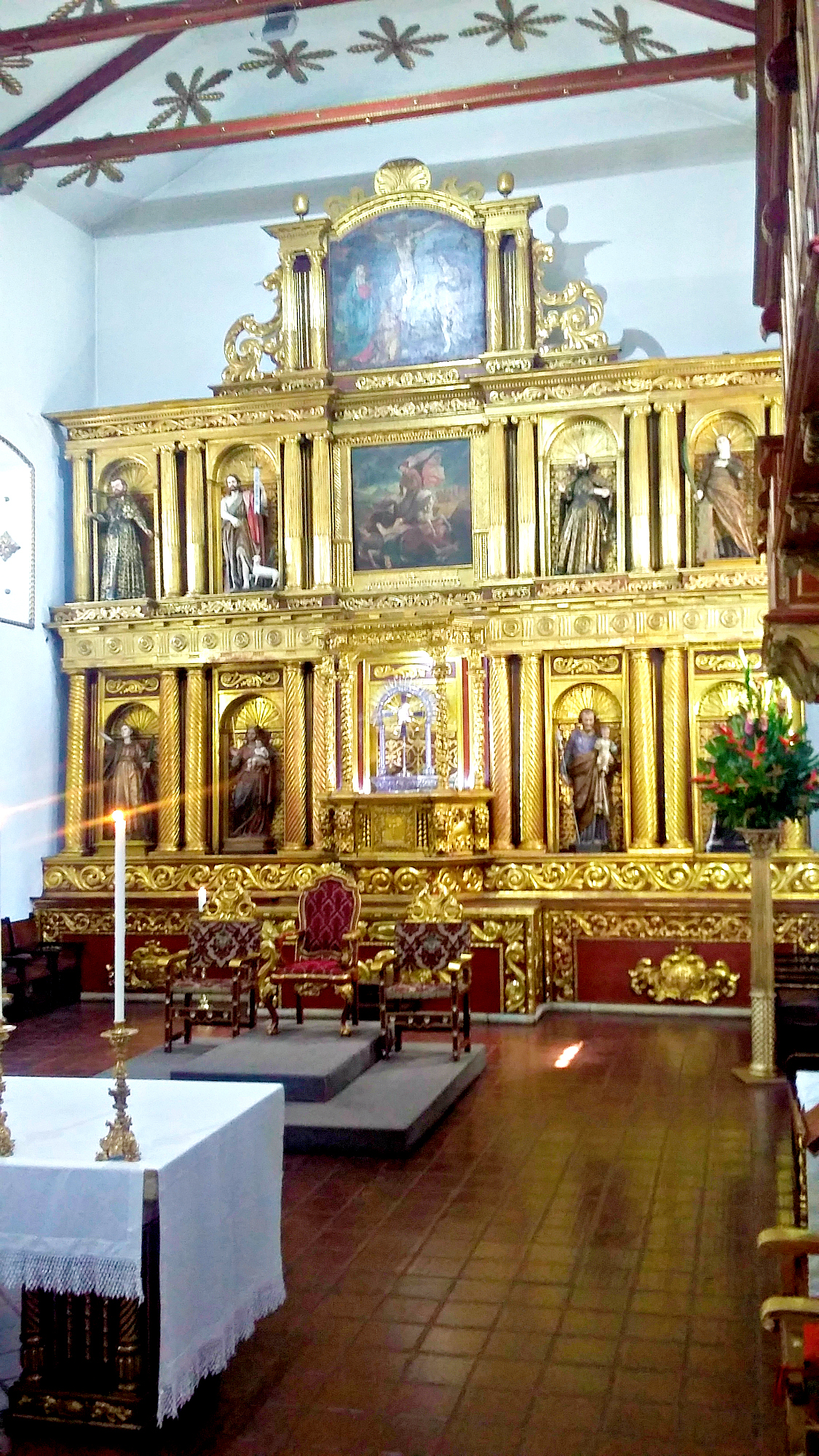 Altar St. Jacob's Cathedral